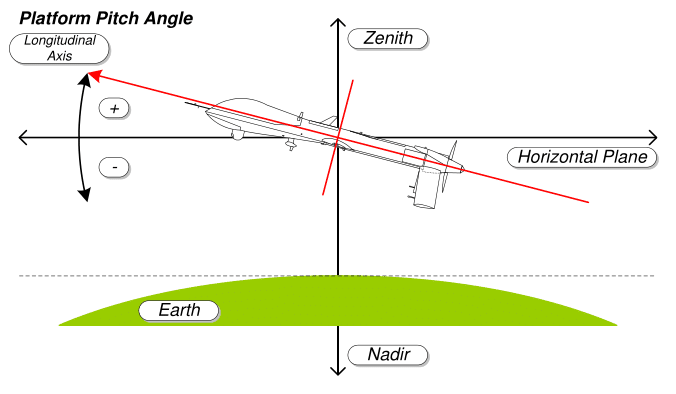 Platform Pitch Angle